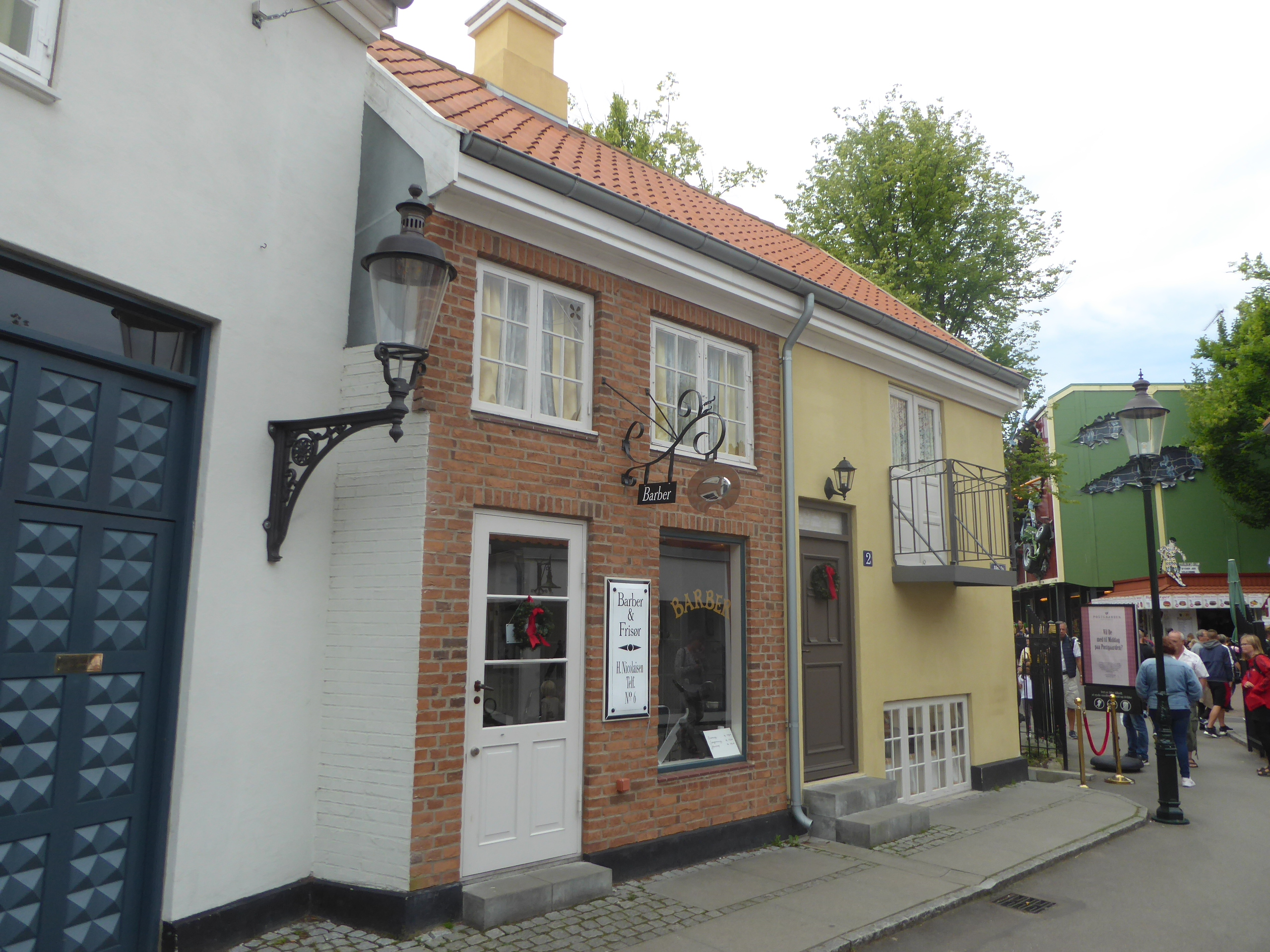 Reconstruction of the fictional city Korsbæk from the Danish television serie Matador in the amusement park Bakken north of Copenhagen.